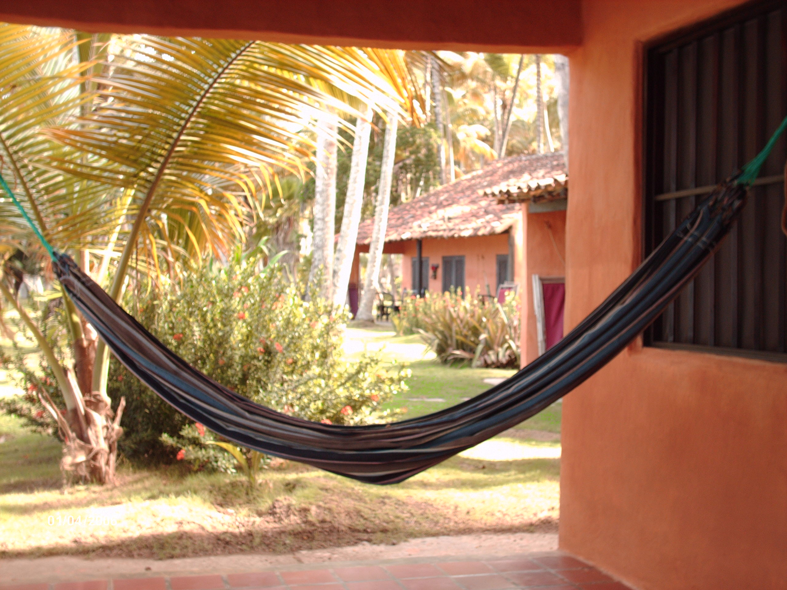 hammock in beach house